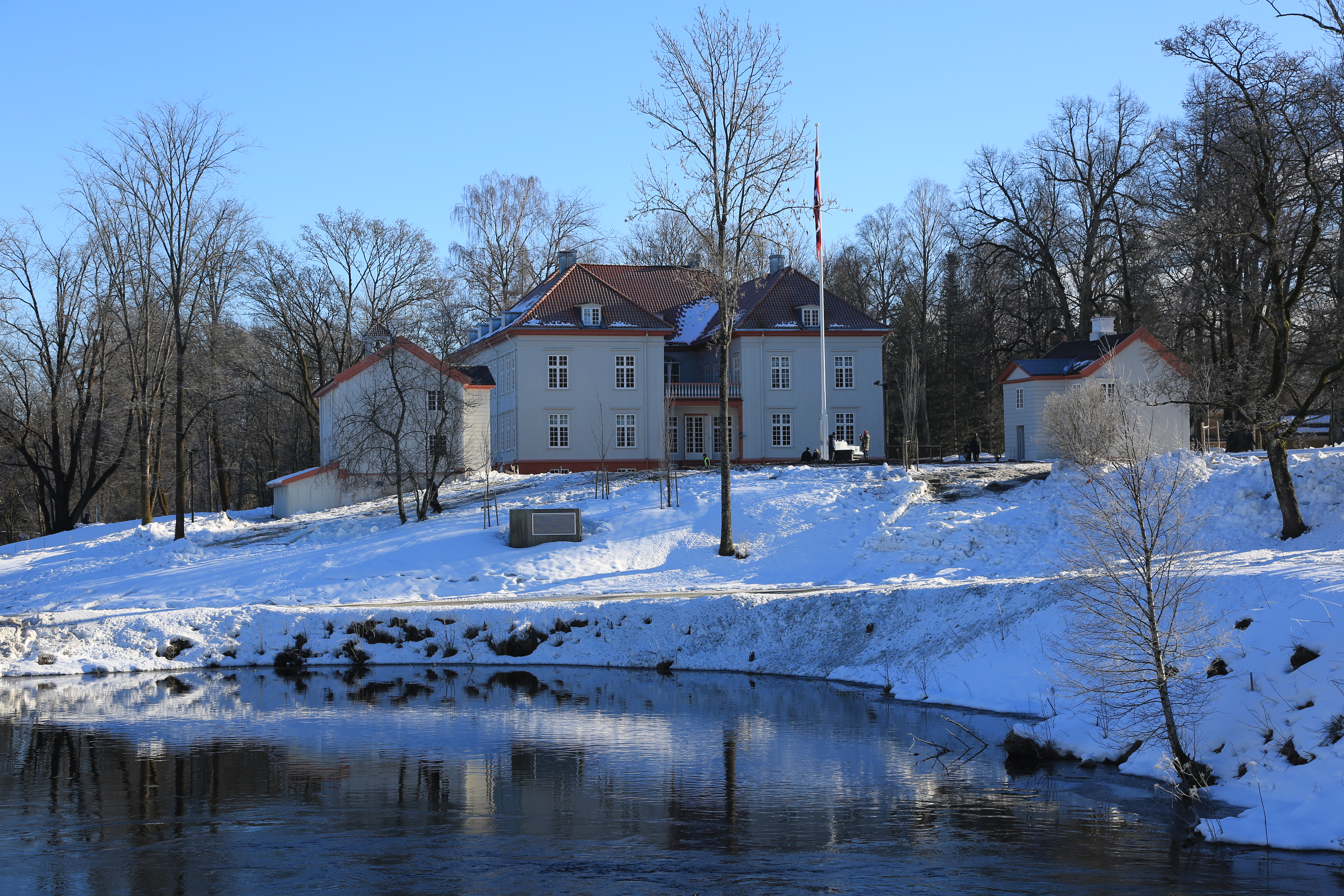 The building where Norways constitution was made in the spring of 1814.